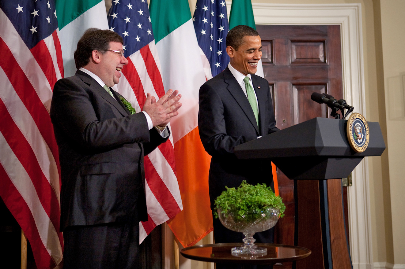 Taoiseach Brian Cowen (left) and U.S. President Barack Obama on Saint Patrick's Day, 17 March 2009, following a presentation by the Taoiseach of a bowl of shamrock to the President in the Roosevelt Room of the White House.